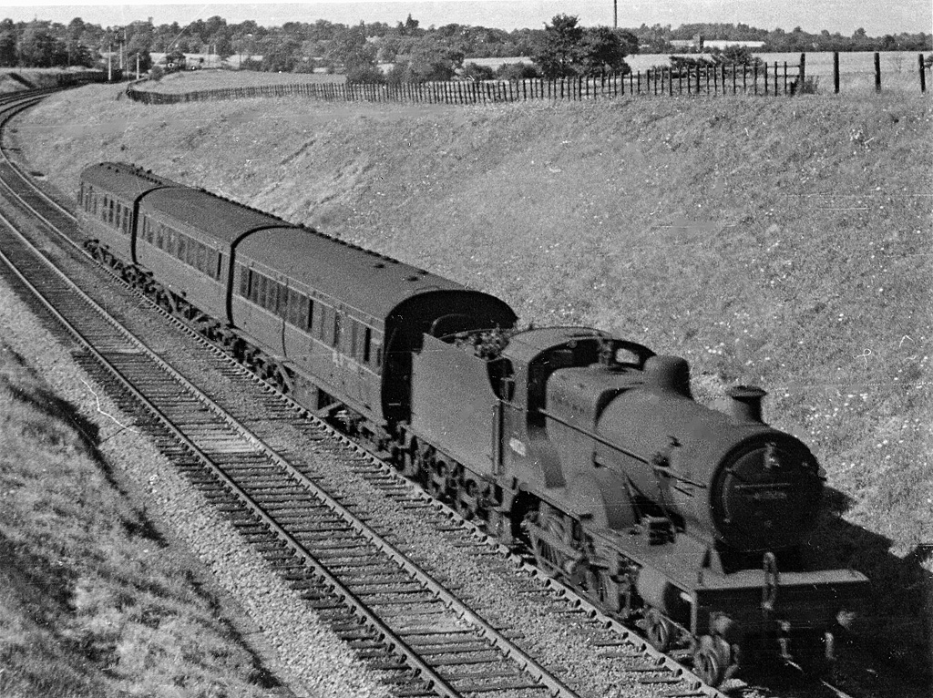 Down stopping train near Abbots Wood Junction, View NW, towards Abbots Wood Junction, Worcester and Birmingham; ex-Midland Birmingham - Bristol main line. At Abbots Wood the deviation from Stoke Works Junction via Worcester rejoins the through main line. The train is a Worcester - Gloucester stopping train, headed by ex-Midland 7'0" Compound 4-4-0 No. 41028.